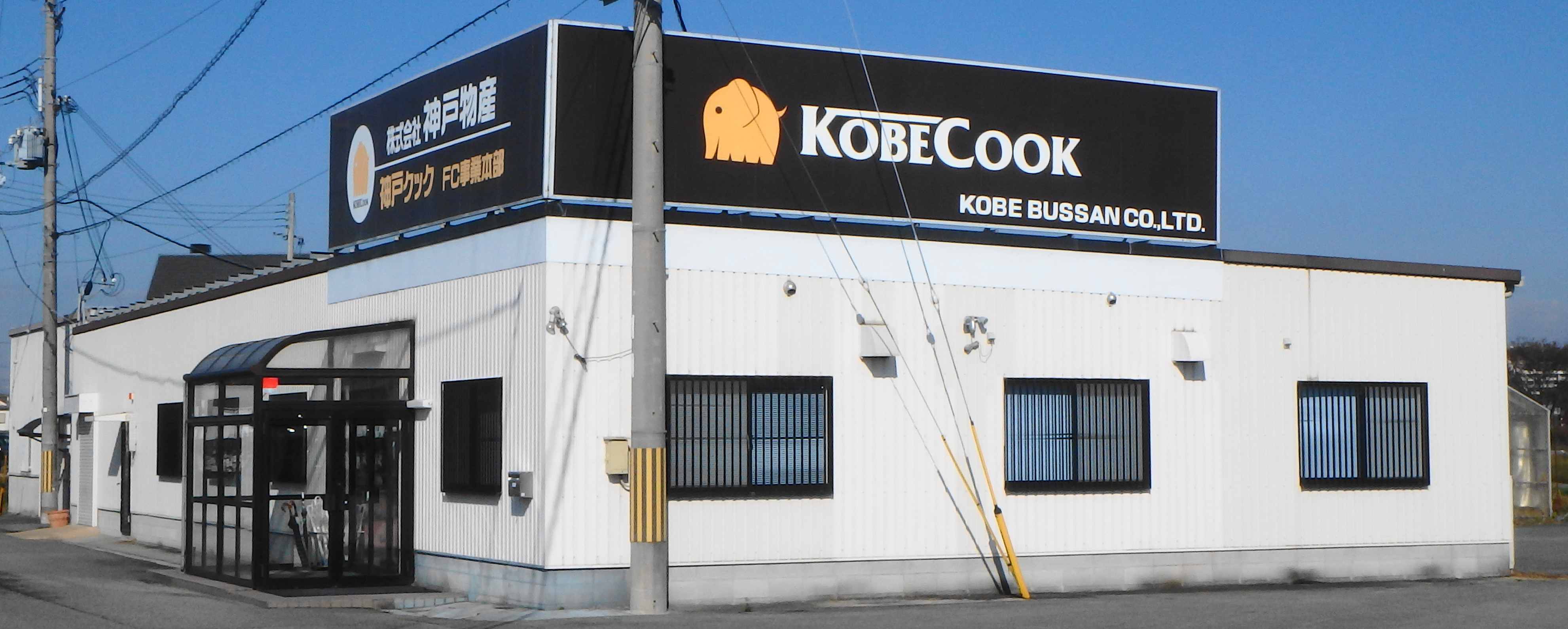 Headquarters of KOBE BUSSAN Co., Ltd.,Hyogo prefecture,Japan